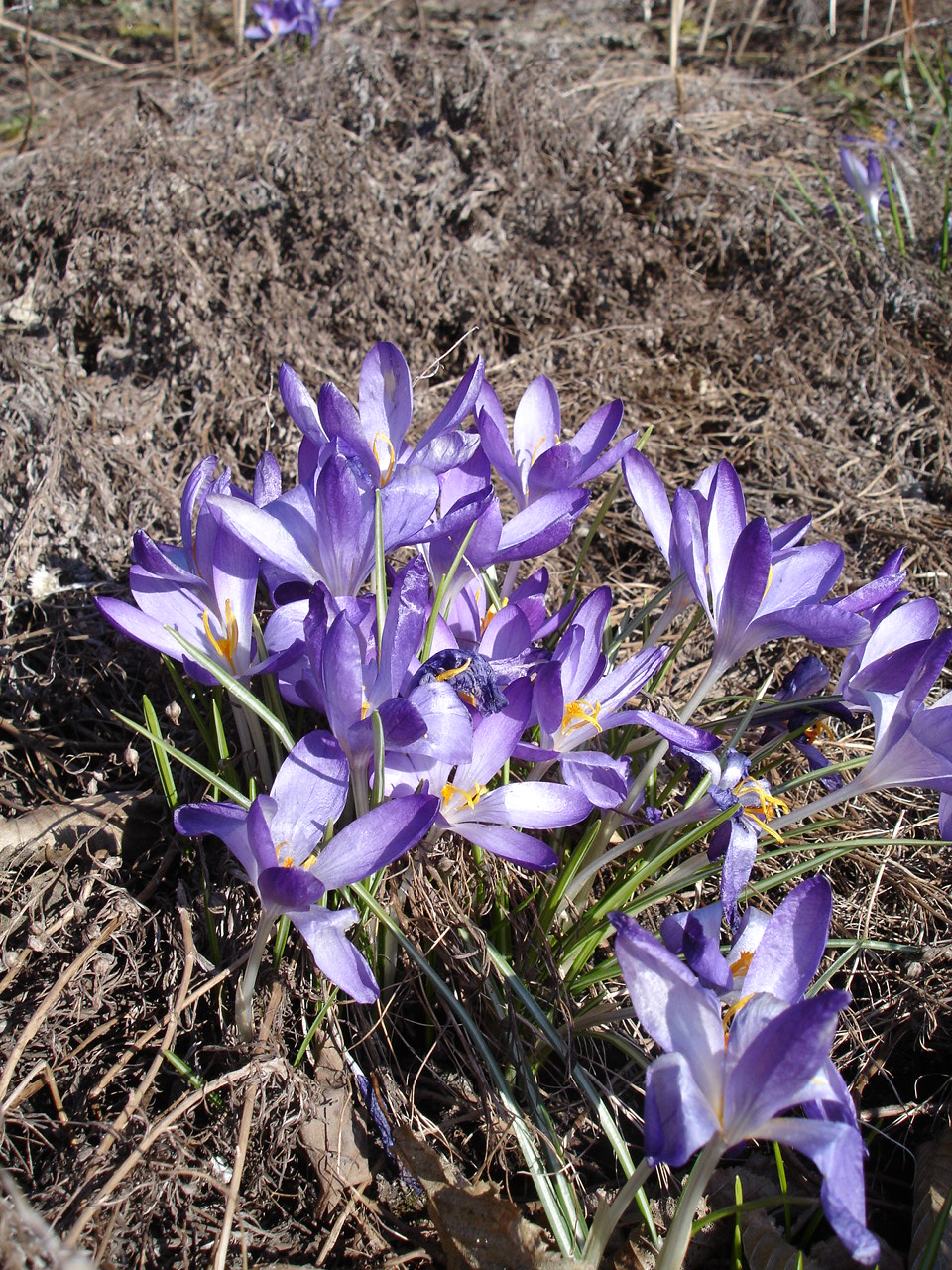 Crocus tommasinianus